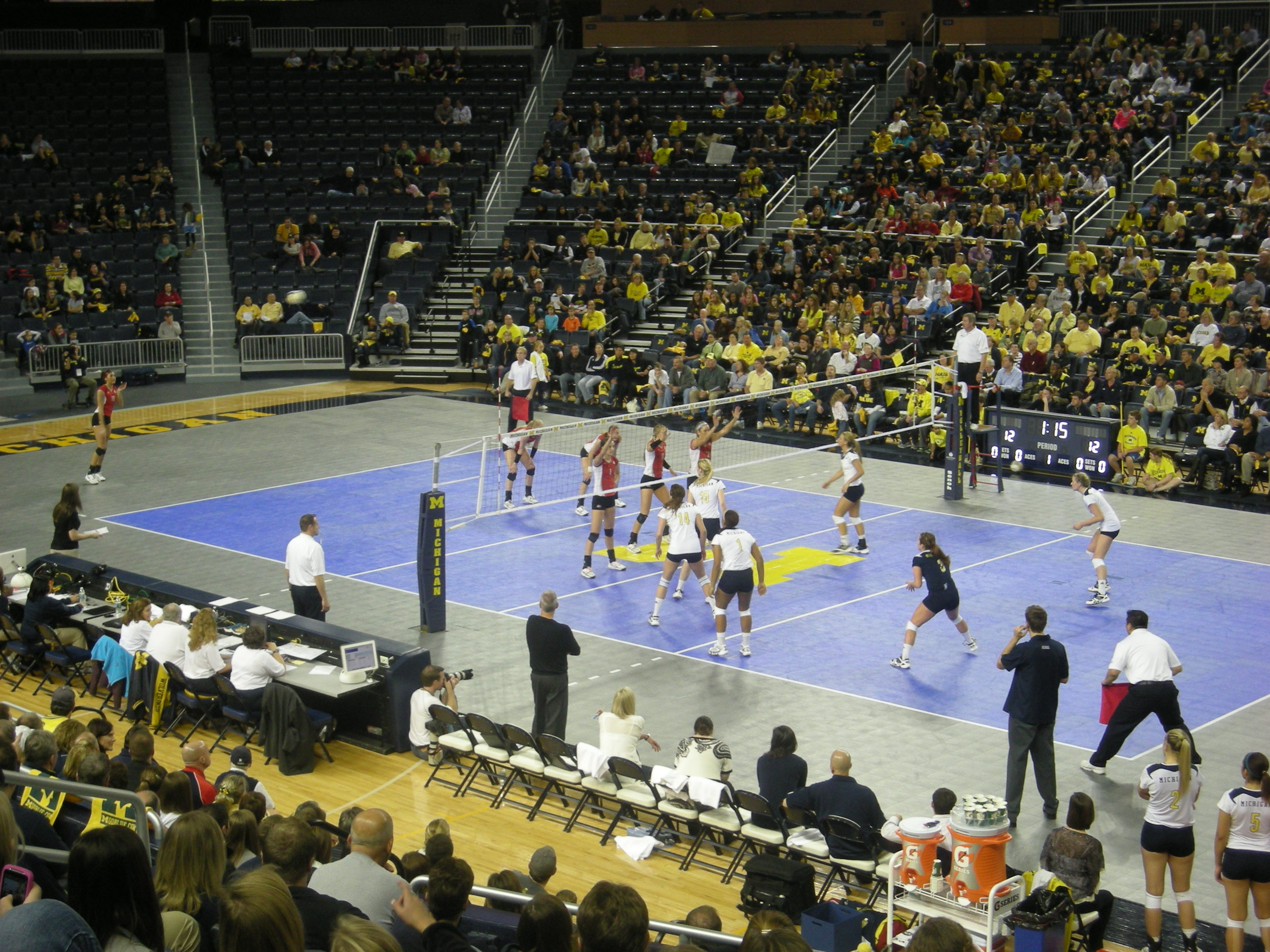 In-match action from the Ohio State Buckeyes vs. Michigan Wolverines women's volleyball match at Crisler Arena in Ann Arbor, Michigan (United States). Ohio State won 3–1 (25–20, 25–22, 16–25, 25–20).